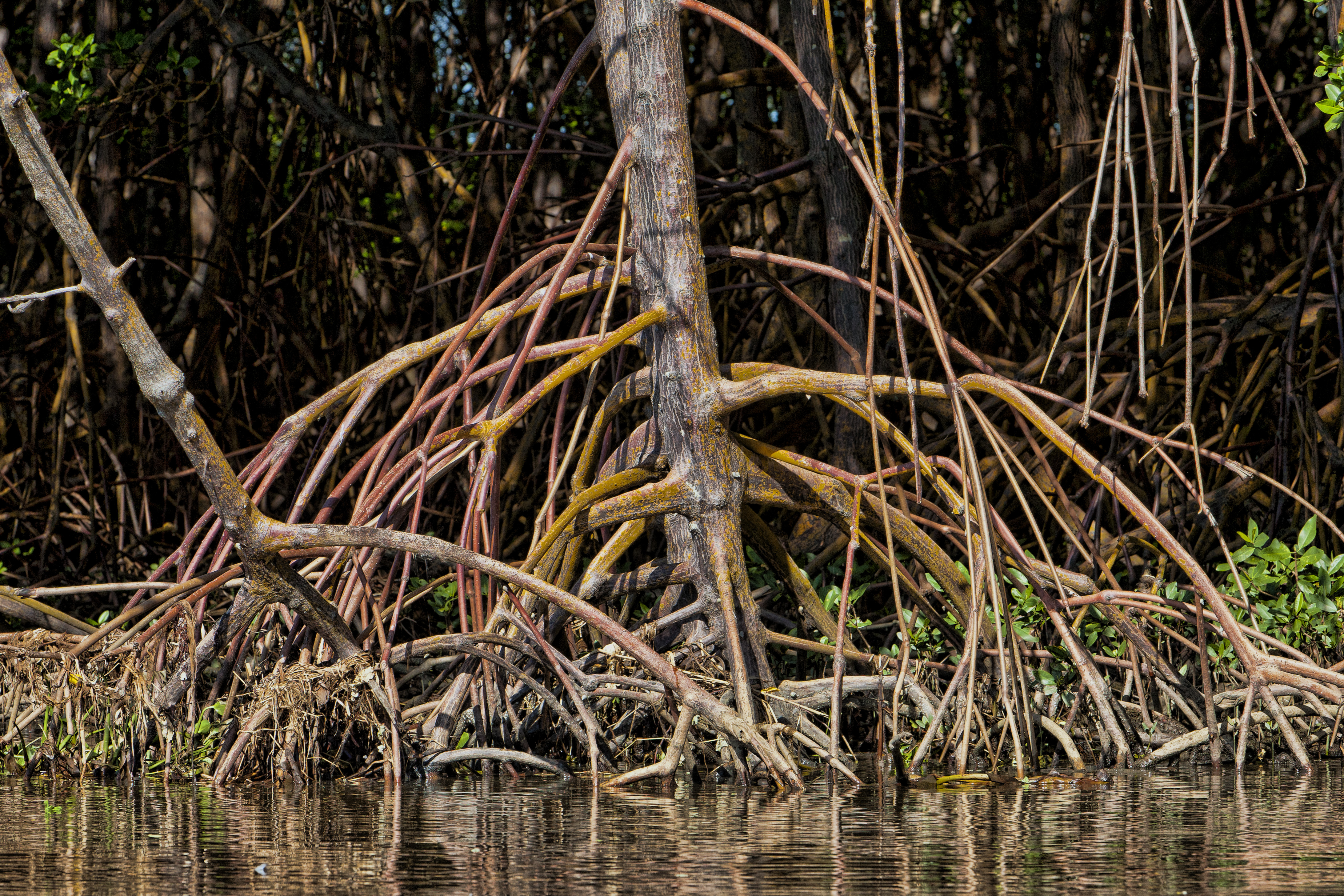 Detail of red mangrove (Rhizophora mangle) roots in Prado, Bahia state, Brazil. Mangroves are various kinds of trees up to medium height and shrubs that grow in saline coastal sediment habitats in the tropics and subtropics – mainly between latitudes 25° N and 25° S. The remaining mangrove forest areas of the world in 2000 was 53,190 square miles (137,760 km²) spanning 118 countries and territories.[1][2] The word is used in at least three senses: (1) most broadly to refer to the habitat and entire plant assemblage or mangal,[3][page needed] for which the terms mangrove forest biome, mangrove swamp and mangrove forest are also used, (2) to refer to all trees and large shrubs in the mangrove swamp, and (3) narrowly to refer to the mangrove family of plants, the Rhizophoraceae, or even more specifically just to mangrove trees of the genus Rhizophora. The term "mangrove" comes to English from Spanish (perhaps by way of Portuguese), and is of Caribbean origin, likely Taíno. It was earlier "mangrow" (from Portugues mangue or Spanish mangle), but this was corrupted via folk etymology influence of "grove".The mangrove biome, or mangal, is a distinct saline woodland or shrubland habitat characterized by a depositional coastal environments, where fine sediments (often with high organic content) collect in areas protected from high-energy wave action. Mangroves dominate three quarters of tropical coastlines.[4] The saline conditions tolerated by various mangrove species range from brackish water, through pure seawater (30 to 40 ppt), to water concentrated by evaporation to over twice the salinity of ocean seawater (up to 90 ppt).[4][5]